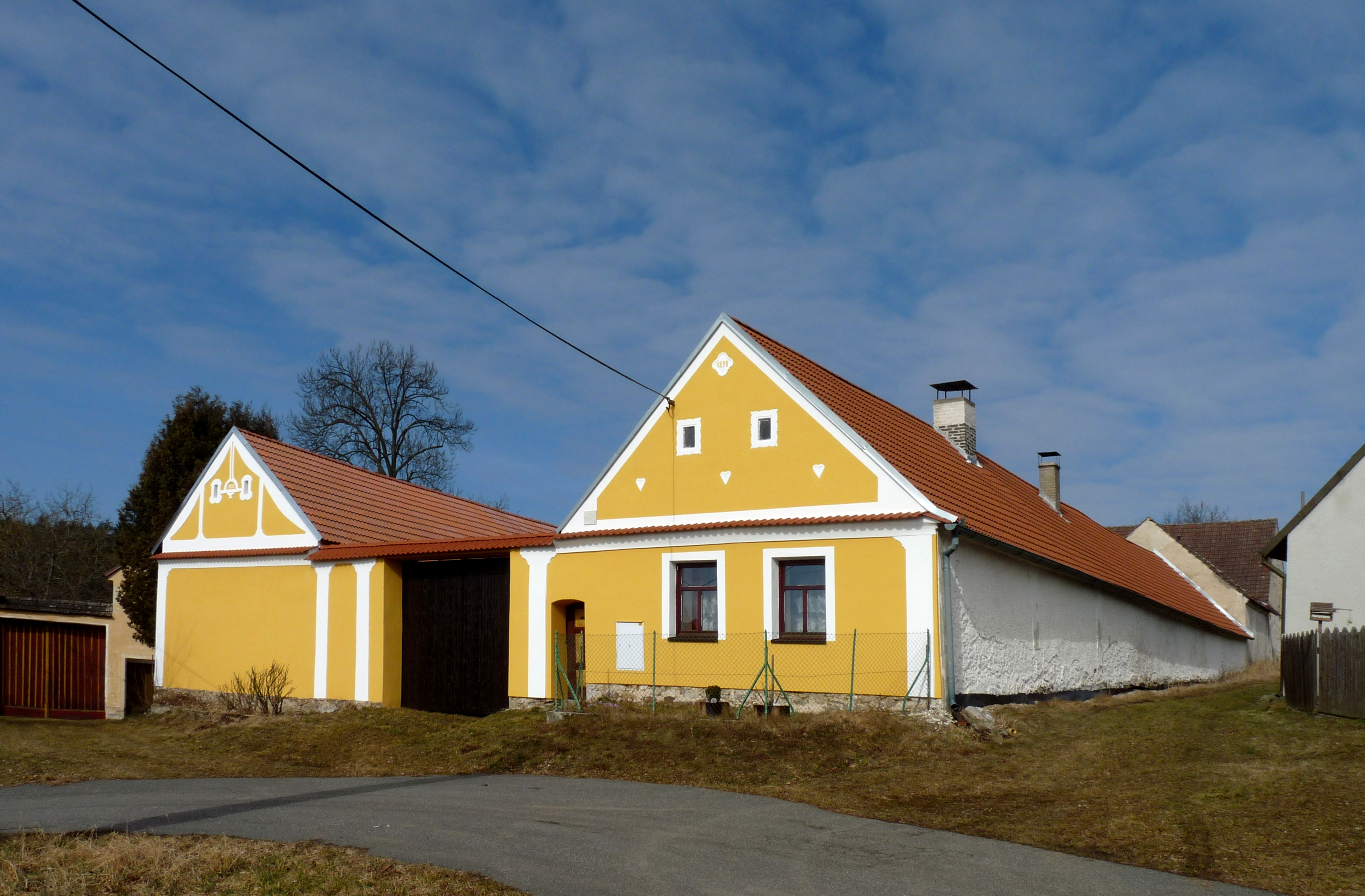 House No 11 in the village of Čeraz, Tábor District, South Bohemian Region, Czech Republic.